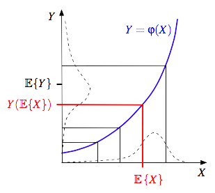 Illustration of Jensen's inequality, by Artur Adib.